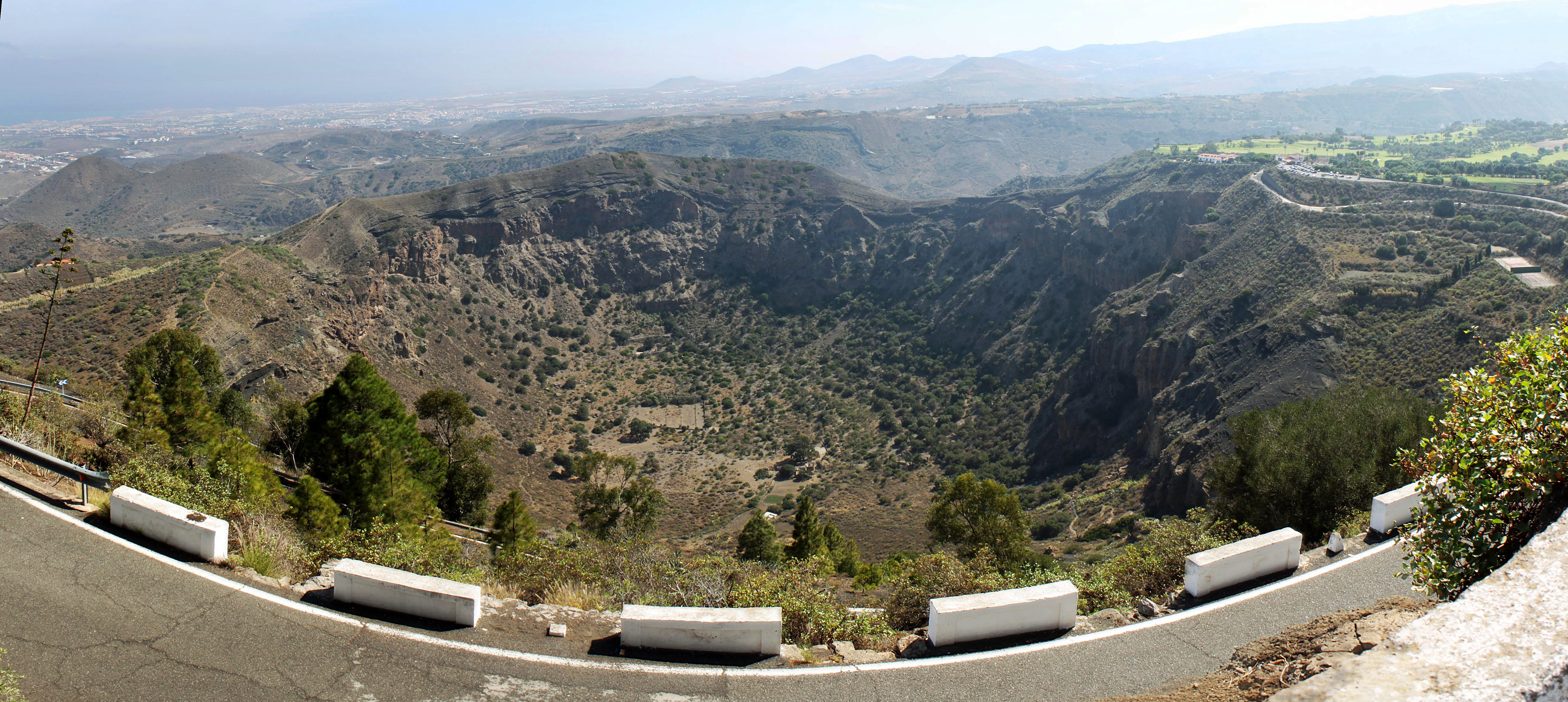 Caldera de Bandama seen from Pico de Badama, Gran Canaria, Canary Islands, Spain.